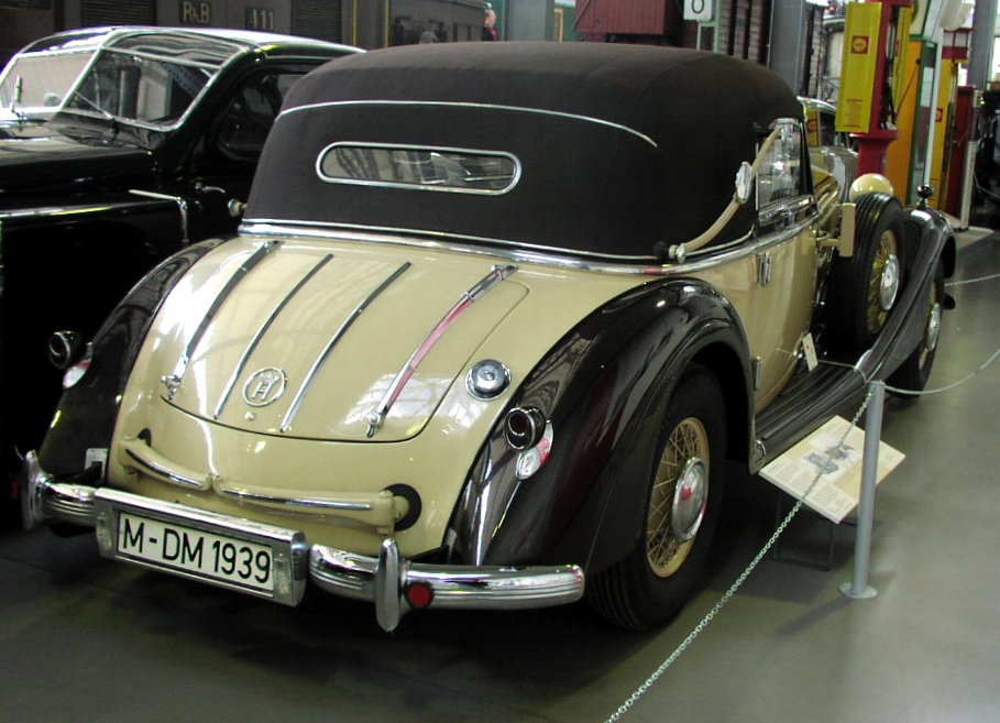 Horch 853 A (1939)